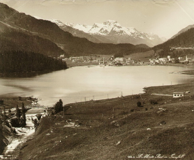 Inn fall 1890, St. Moritz, Switzerland